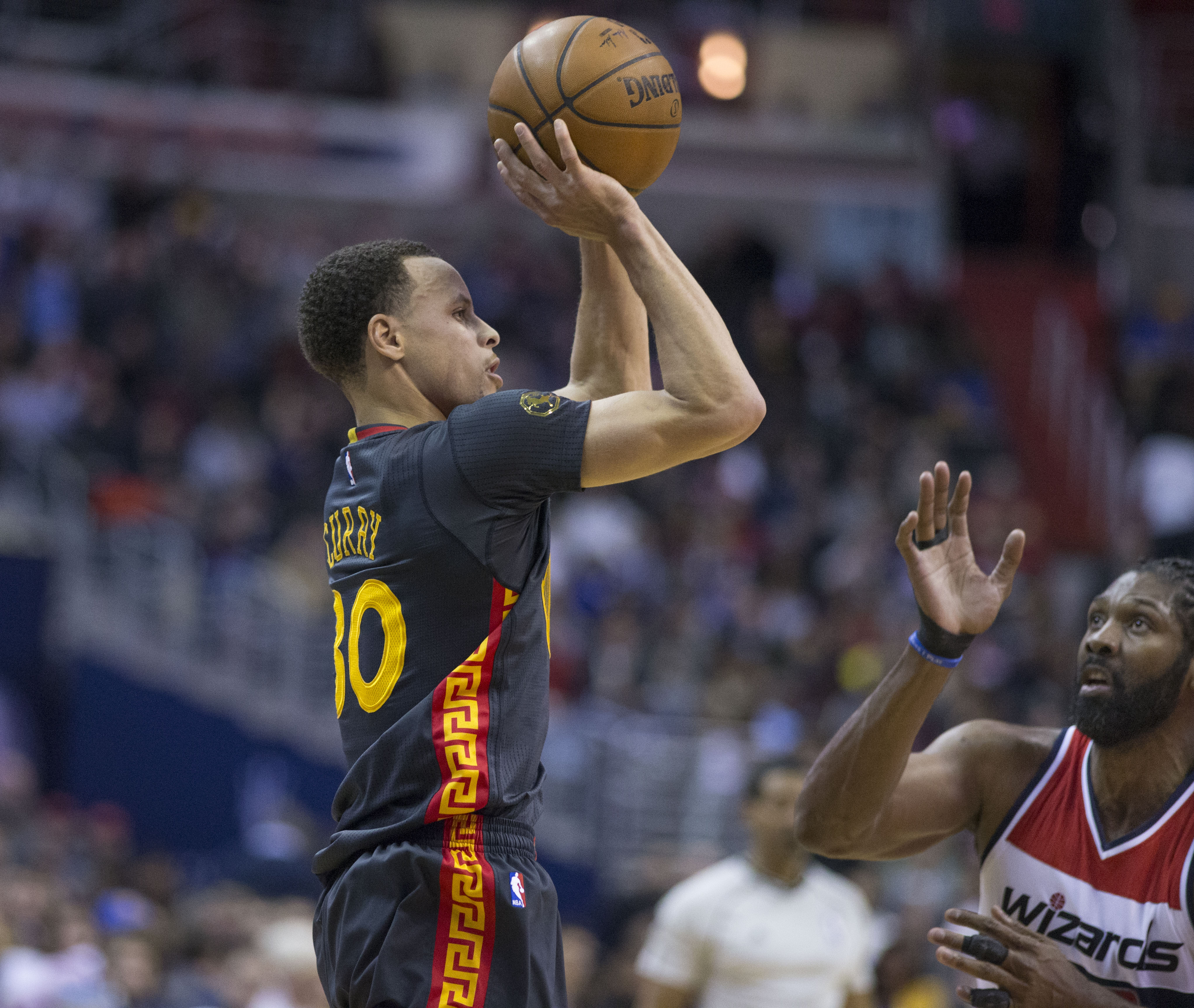 Warriors at Wizards 02/24/15